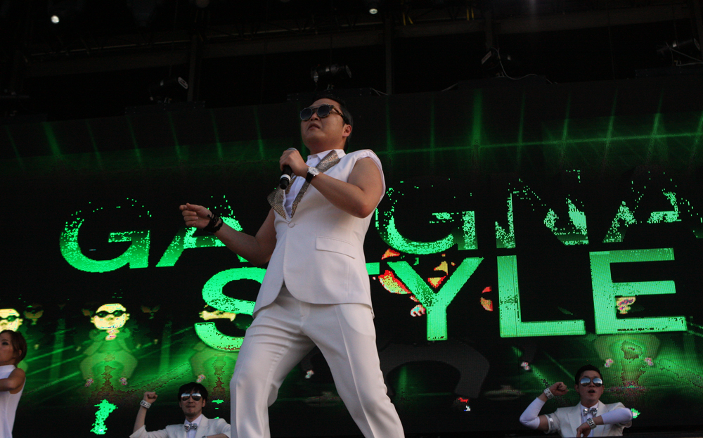 Future Music Festival, Randwick, Sydney, Australia...